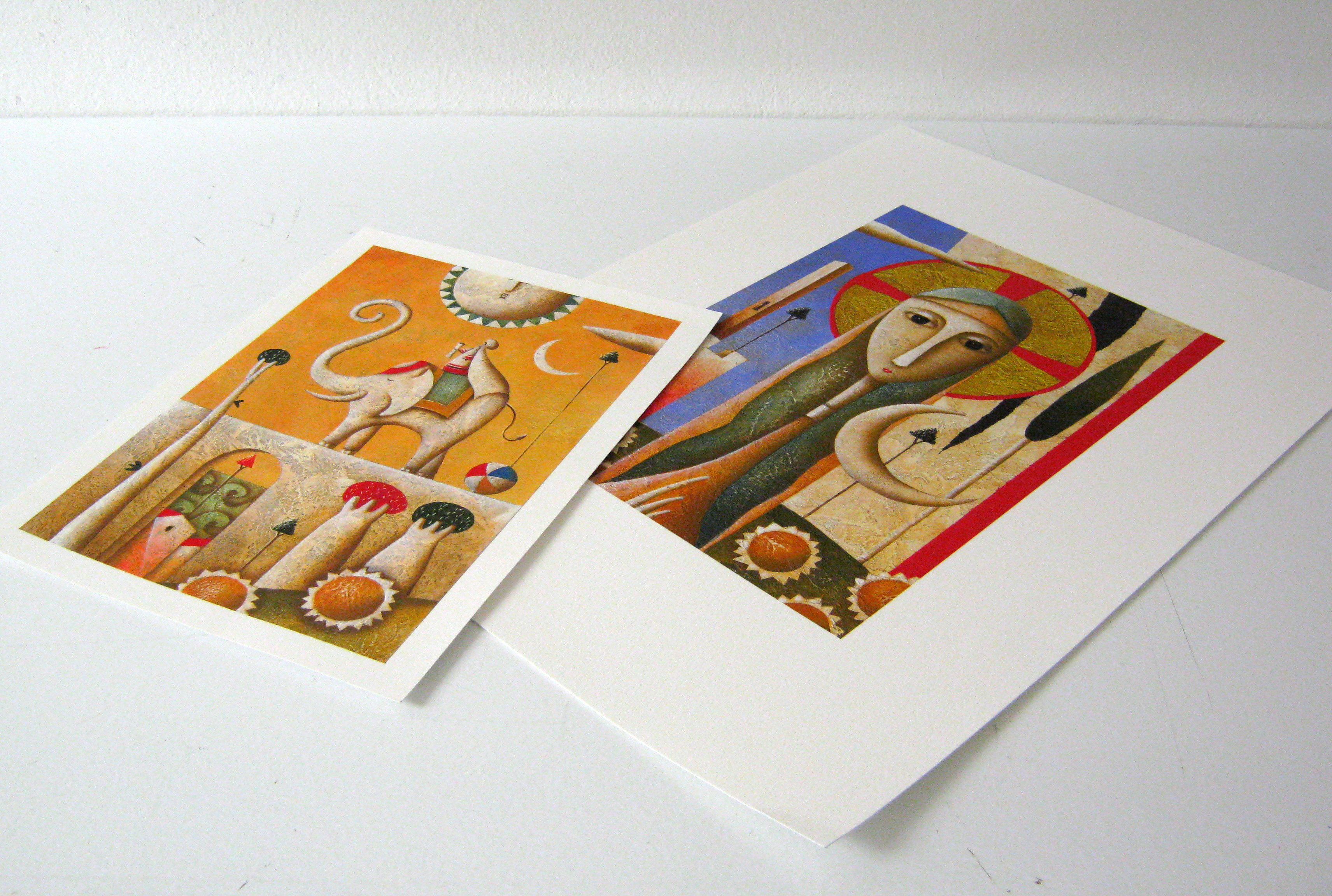 Giclée